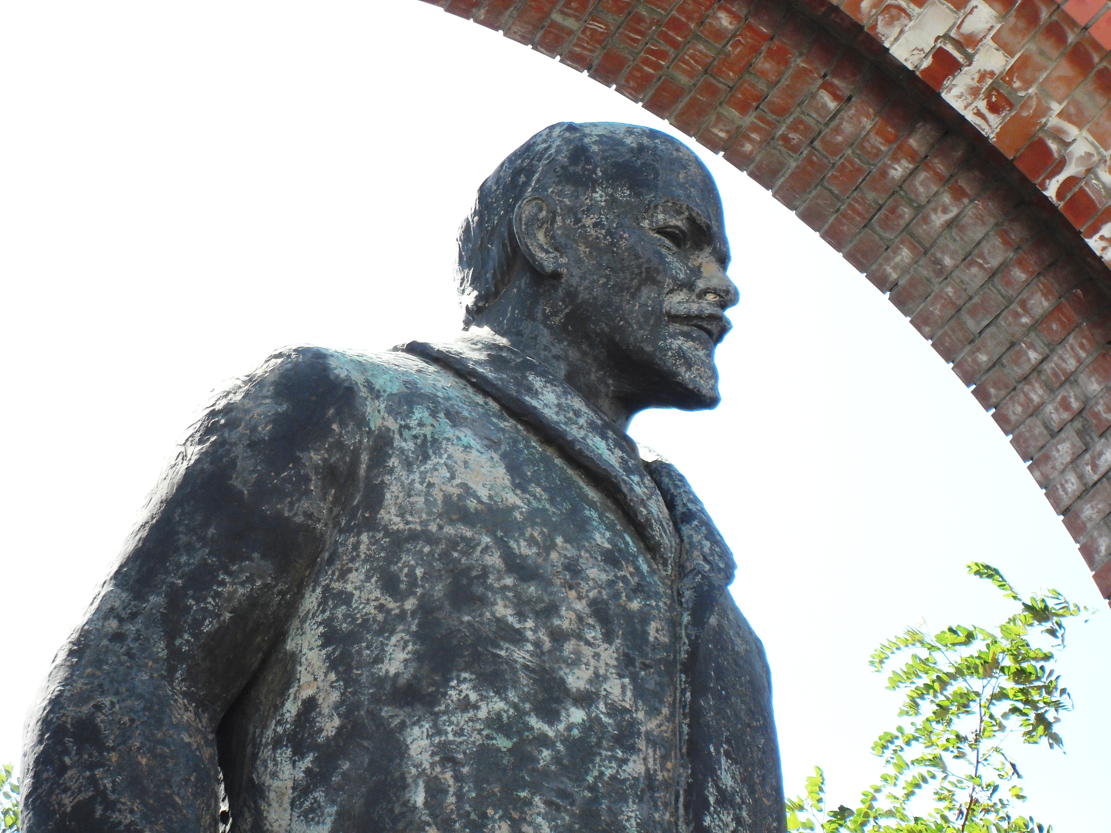 This Lenin statue originaly stood on the central street Dozsa Gyorgy of Budapest. The 4 meter high statue was removed from its place on 31 May 1989 and never returned. Today it belongs to the communist statues collection of the Memento Park.